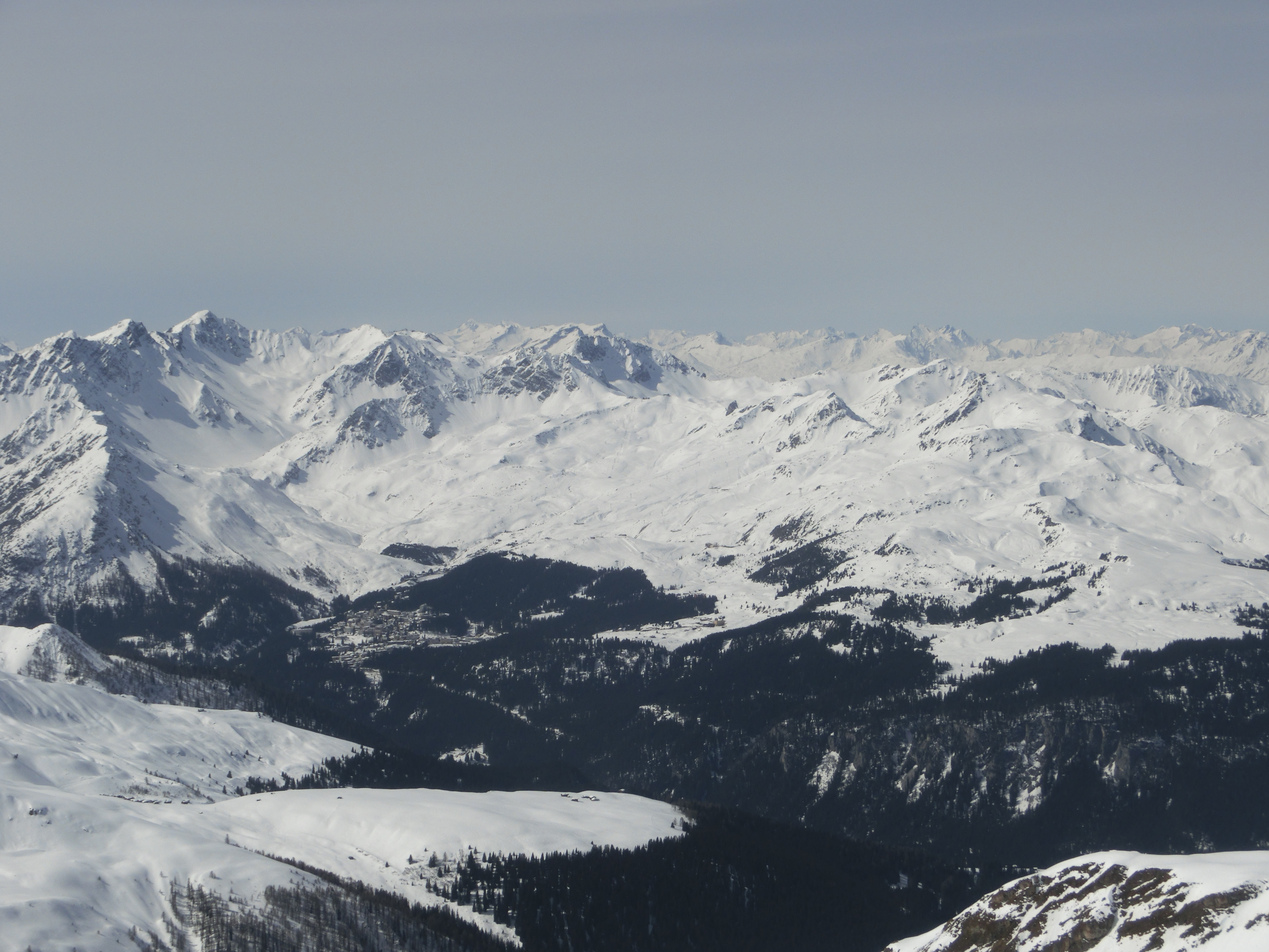 Skiing area Arosa as seen from Weissfluh, Davos, Arosa, Grisons, Switzerland. Rumantsch: Territori da skis Arosa, piglia se davent digl Weissfluh, Tavo, Arosa, Grischun, Svizra.